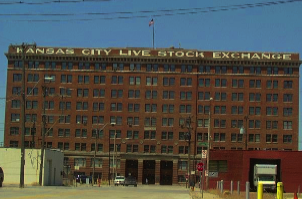 The Kansas City Live Stock Exchange at 1600 Gennesse in Kansas City, Missouri in the West Bottoms was the headquarters of the Kansas City Stockyards. The building is listed on the National Register of Historic Places.